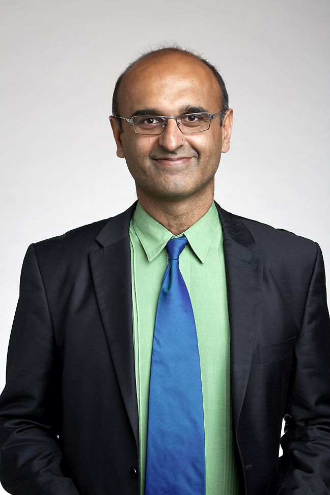 Yadvinder Singh Malhi (born 1968) FRS is Professor of Ecosystem Science at the University of Oxford and a Jackson Senior Research Fellow at Oriel College, Oxford. Attribution: The Royal Society